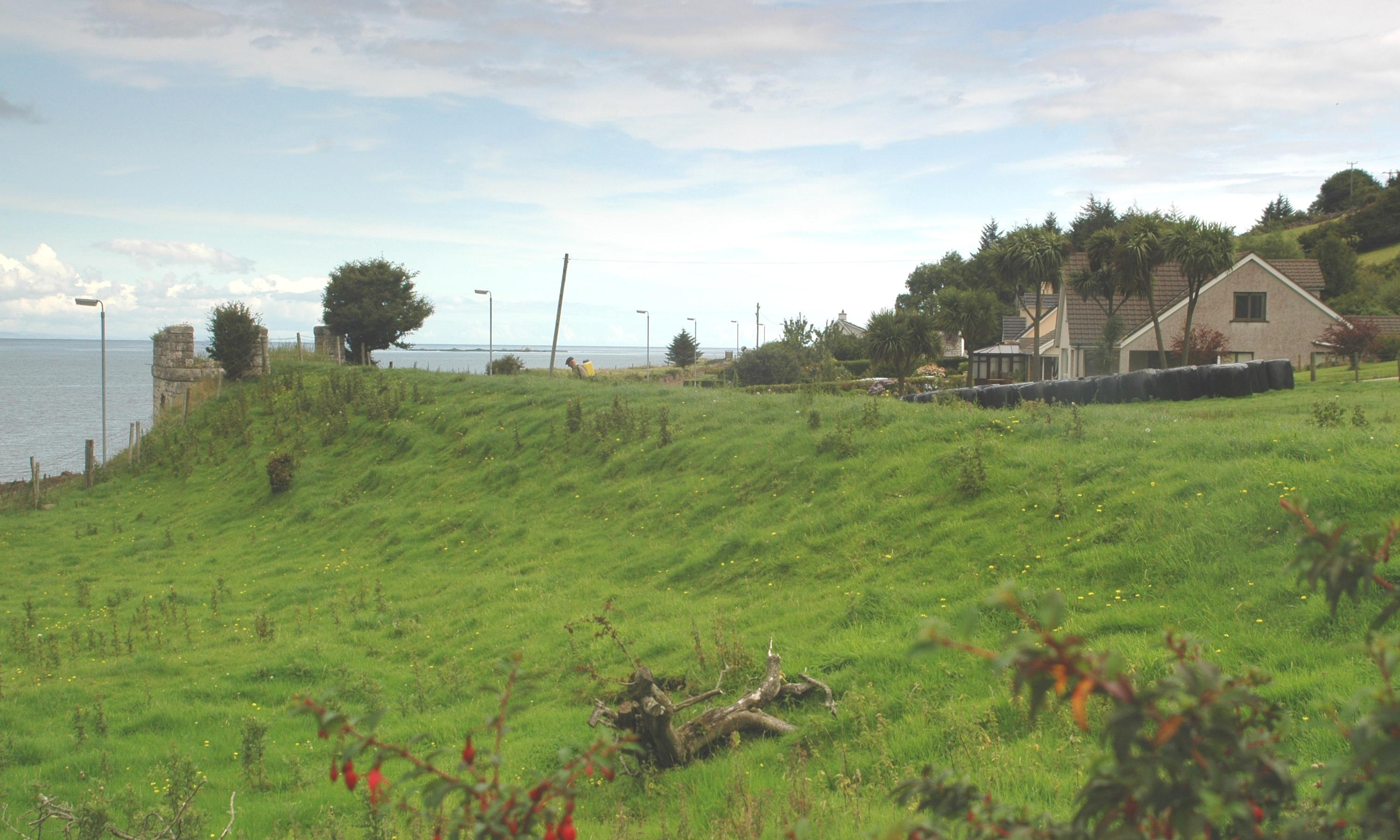 Embankment at White Arch, Garron Road, Waterfoot, Glenariff, County Antrim, Northern Ireland.